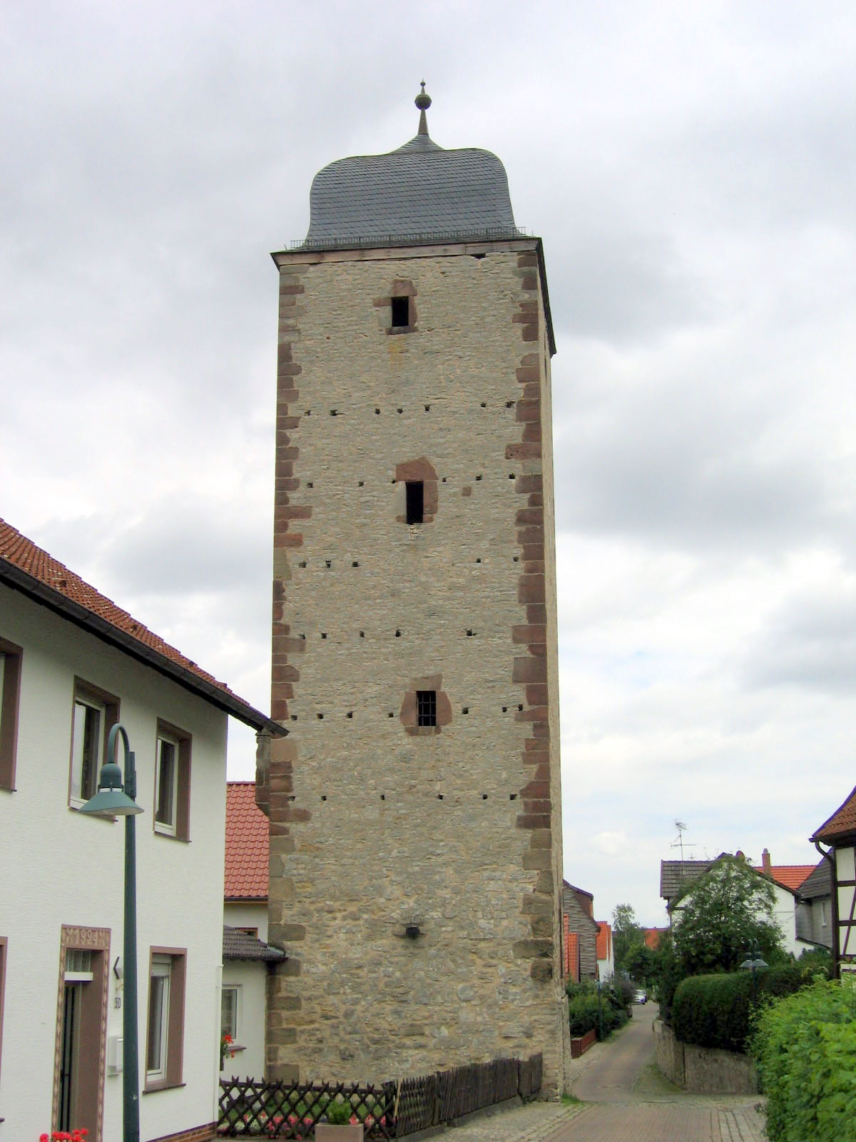 The Frankenturm in Warburg, a watch tower in the double defensive wall at the north side of the Neustadt (New Town) from the 14th century, built in 1350.